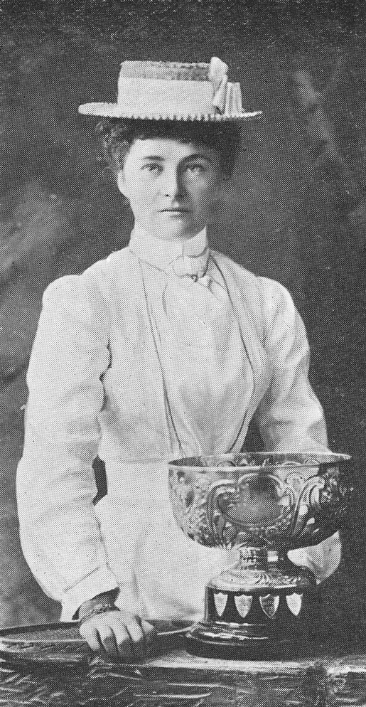 English tennis player Hilda Lane, ca. 1902/03